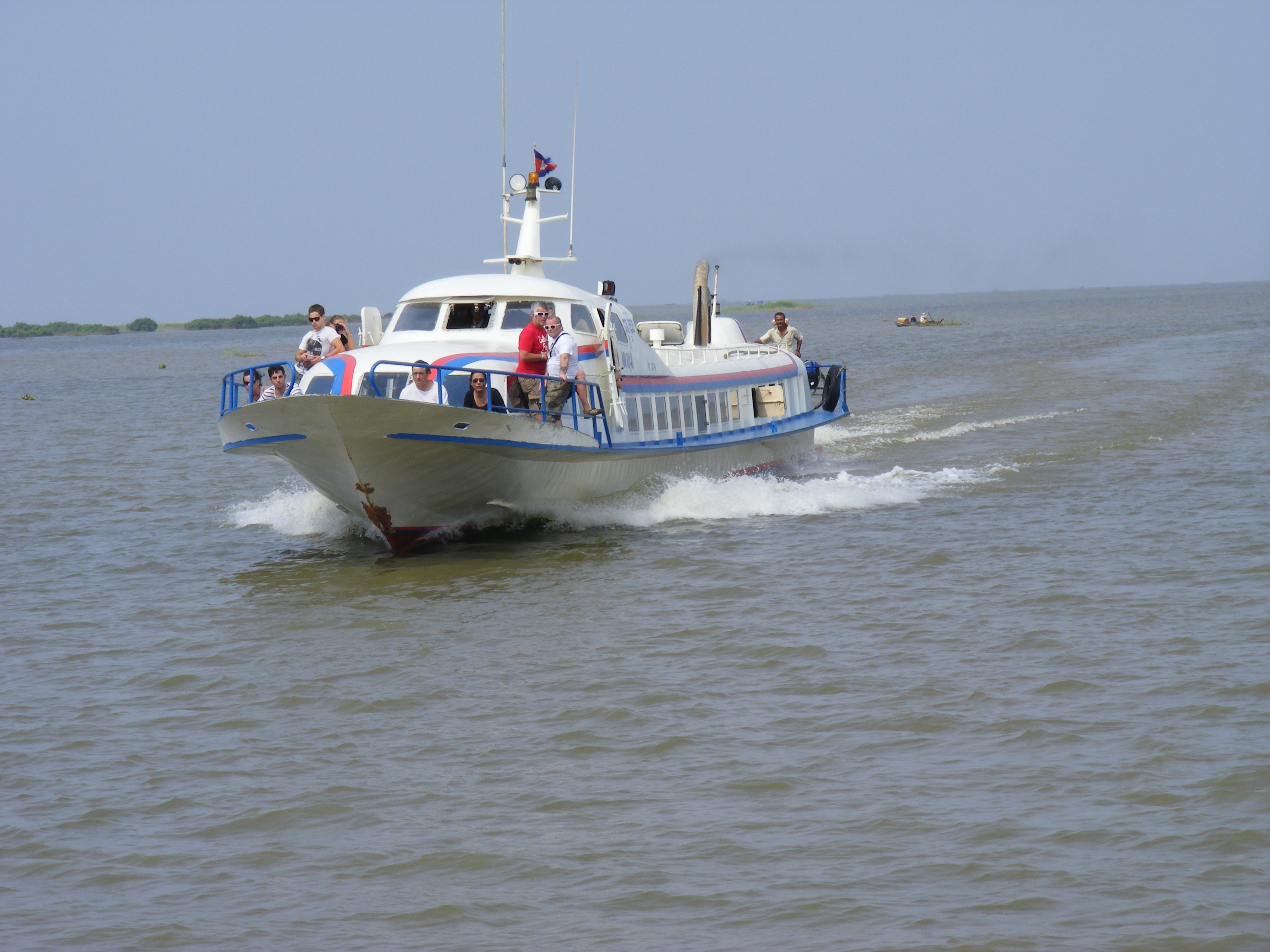 Speedboot an the Tonle Sap River